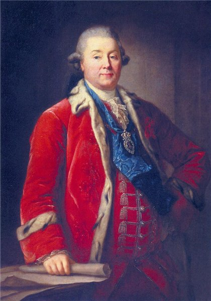 Portrait of Grigory Orlov (1734–1783)